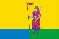 Plastunovskoe (Krasnodar krai), flag